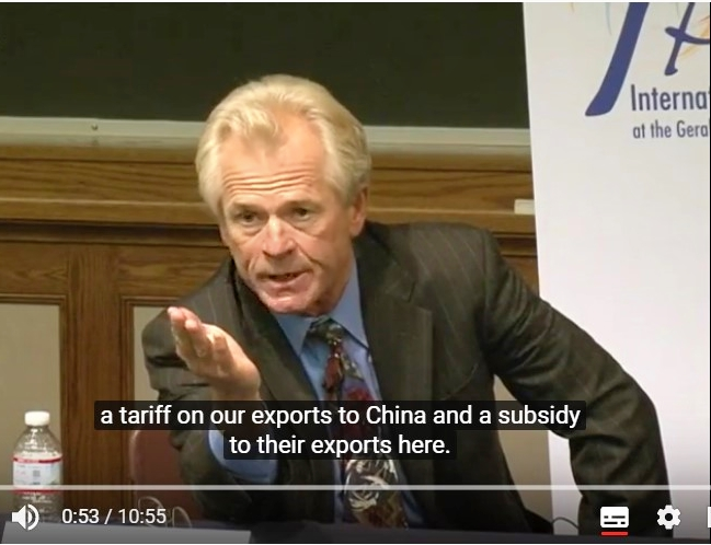 @ The Gerald R. Ford School of Public Policy at the University of Michigan on 9/24/2012